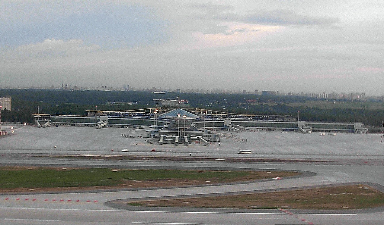 View on the construction site of the Sheremetyevo-D terminal.